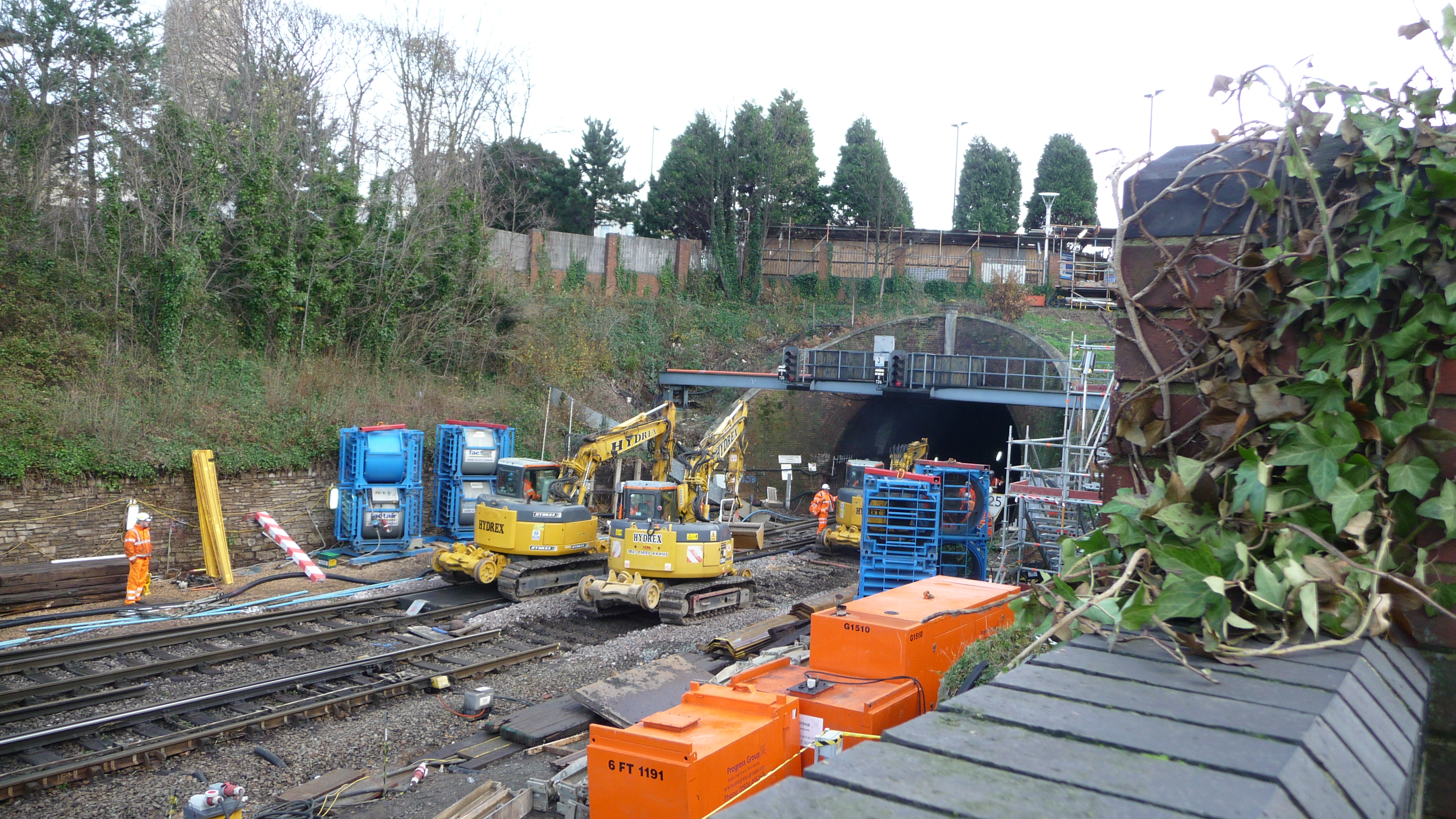 A view of the Southampton Civic Centre Tunnel engineering works, taken from the pavement along Civic Centre Road, looking over the wall. This is the mouth of the Central station end of the tunnel. Various bits of equipment and materials can be seen. The engineering works took place over the period of December 2009 to January 2010. Evening and weekend closures occurred first, and then the tunnel was completely closed over the Christmas period.